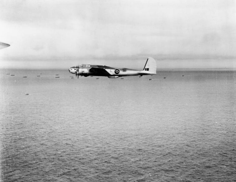 A Royal Air Force Boeing Fortress Mark I (AN537, ‘NR-L) of No. 220 Squadron RAF based at Ballykelly, County Londonderry (RAF), on patrol over a convoy. The aircraft radar aerials, serial number and unit code letters have been obliterated by the wartime censor.